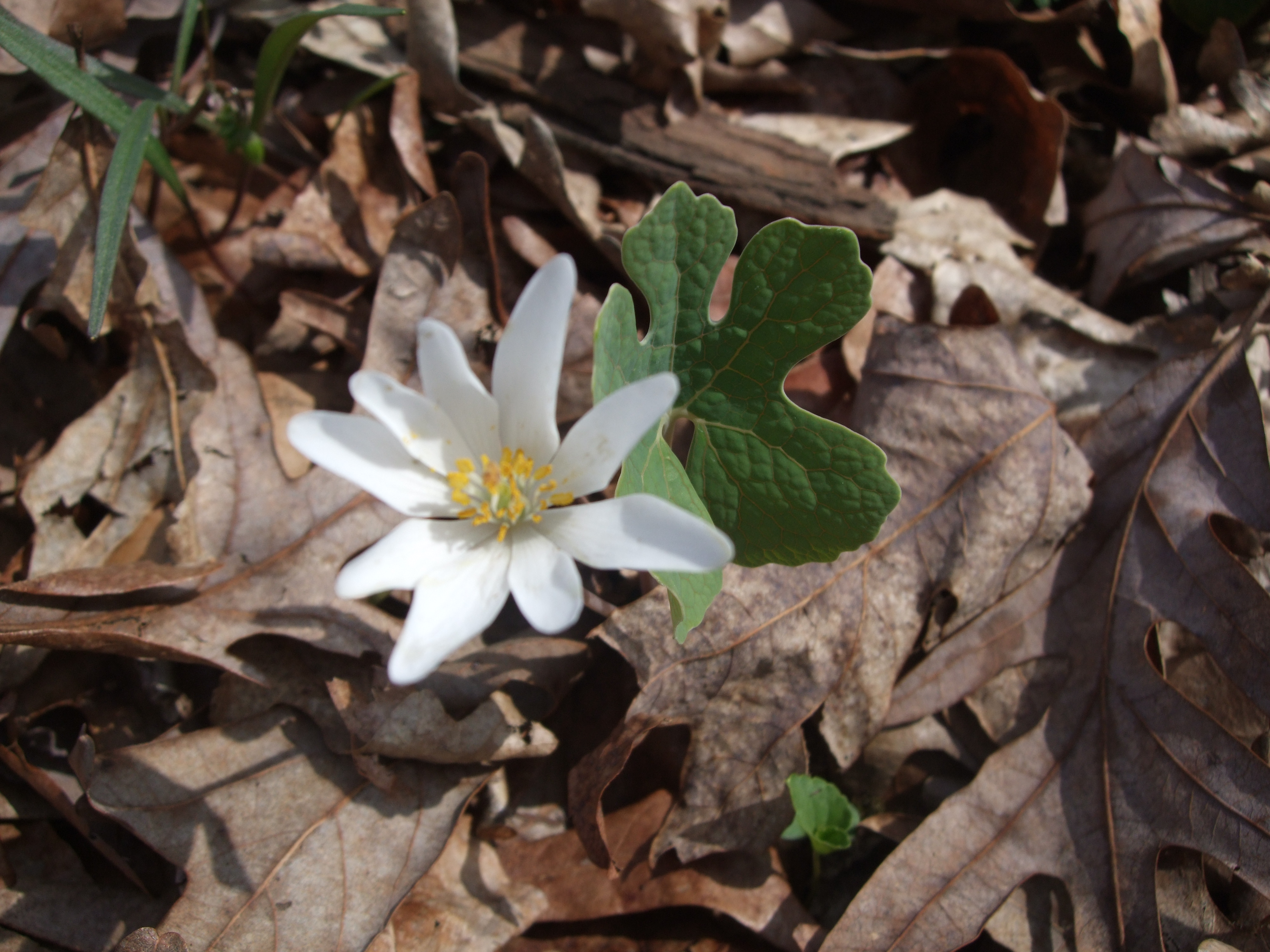 Bloodroot (Sanguinaria canadensis) plant with its clasping leaf